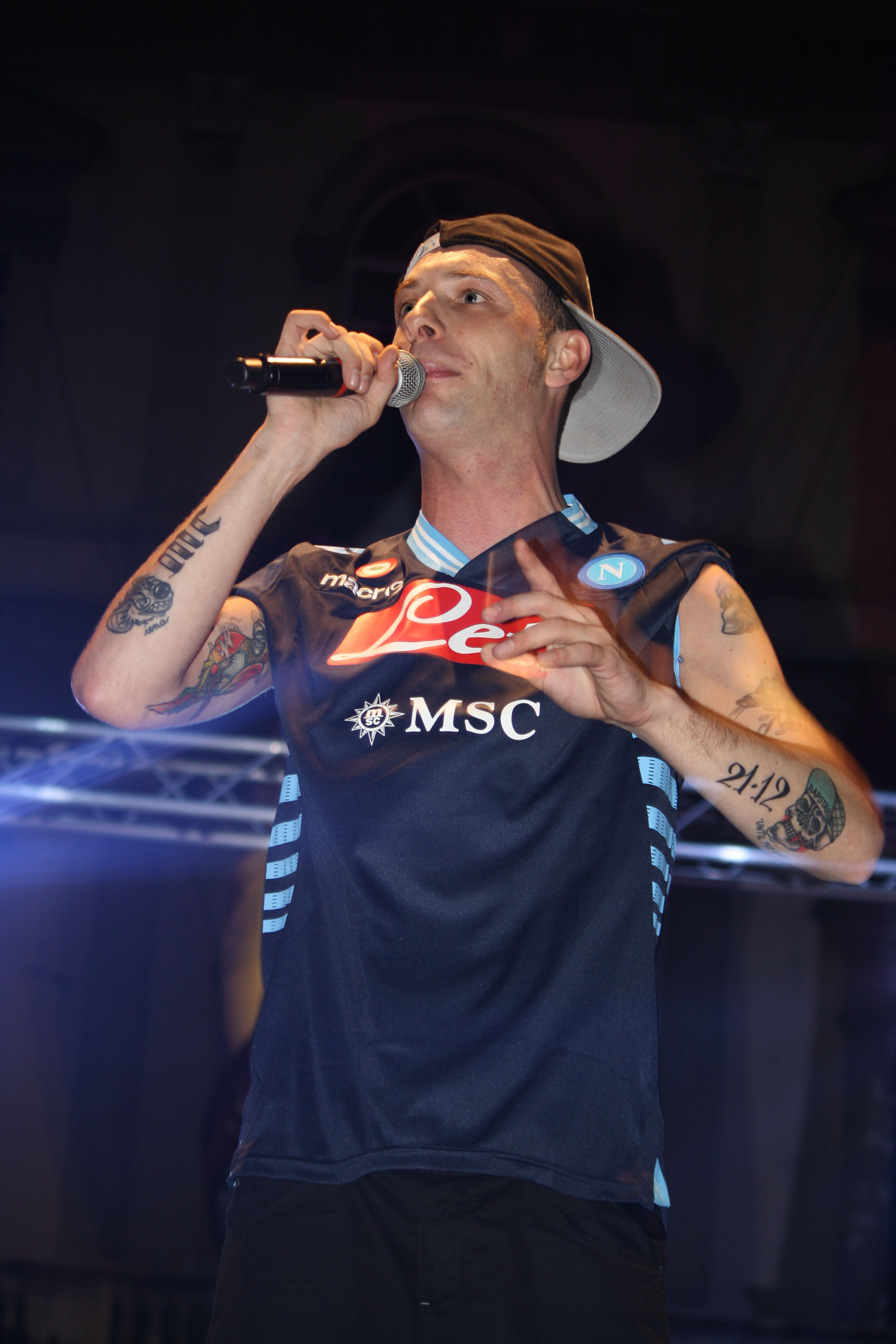 The Italian rapper Clementino during a live exhibition in Nola in 2013.